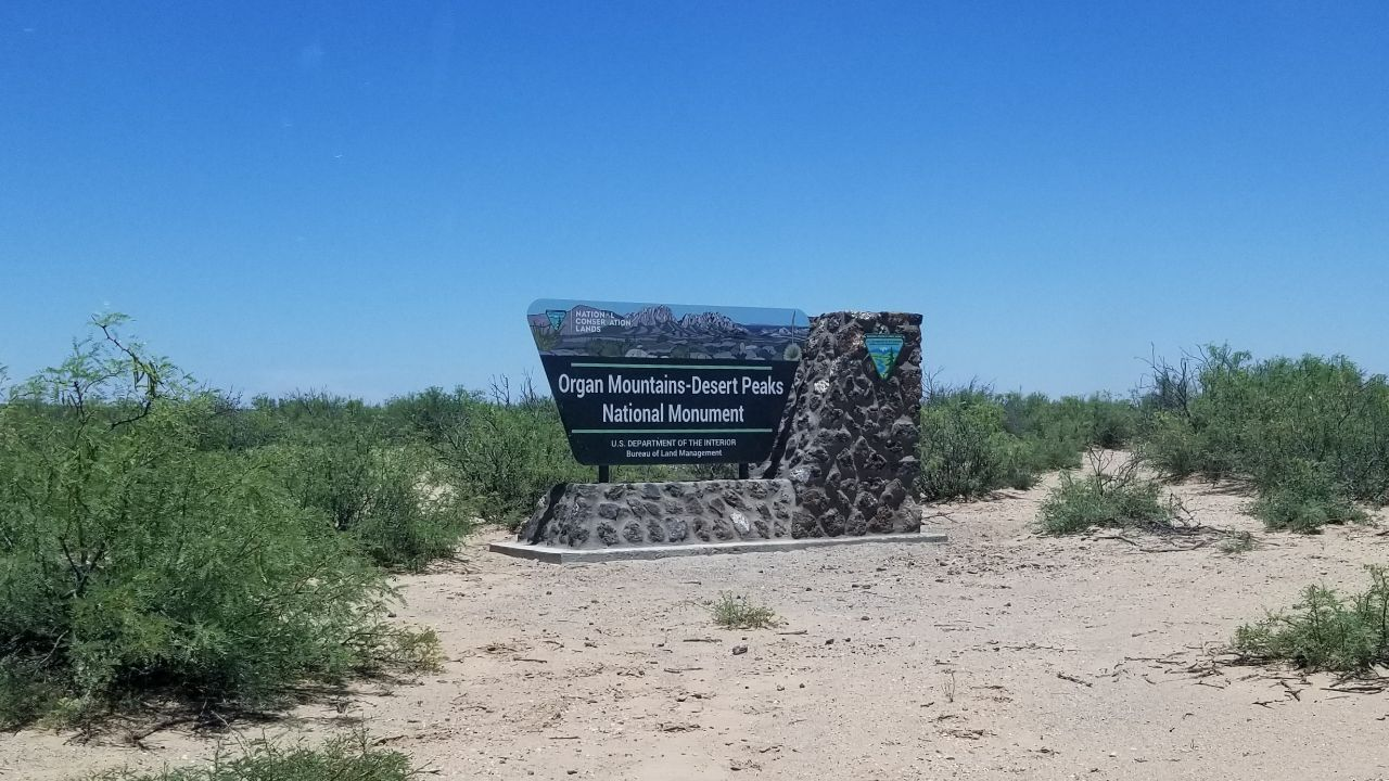 On the road to Kilbourne Hole, this BLM sign describes the land as part of a a National Monument